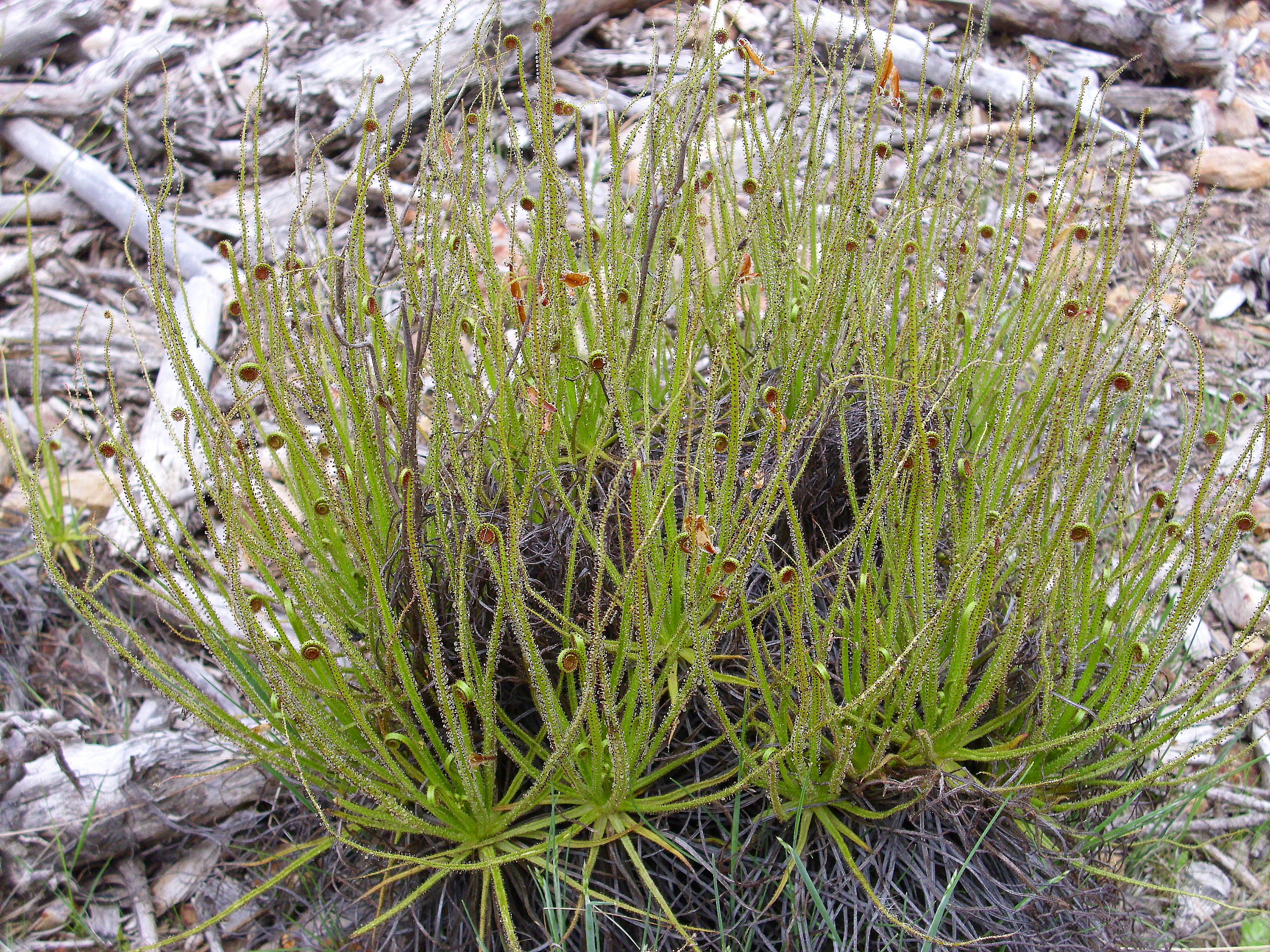 Drosophyllum lusitanicum habit, Sierra Madrona, Spain